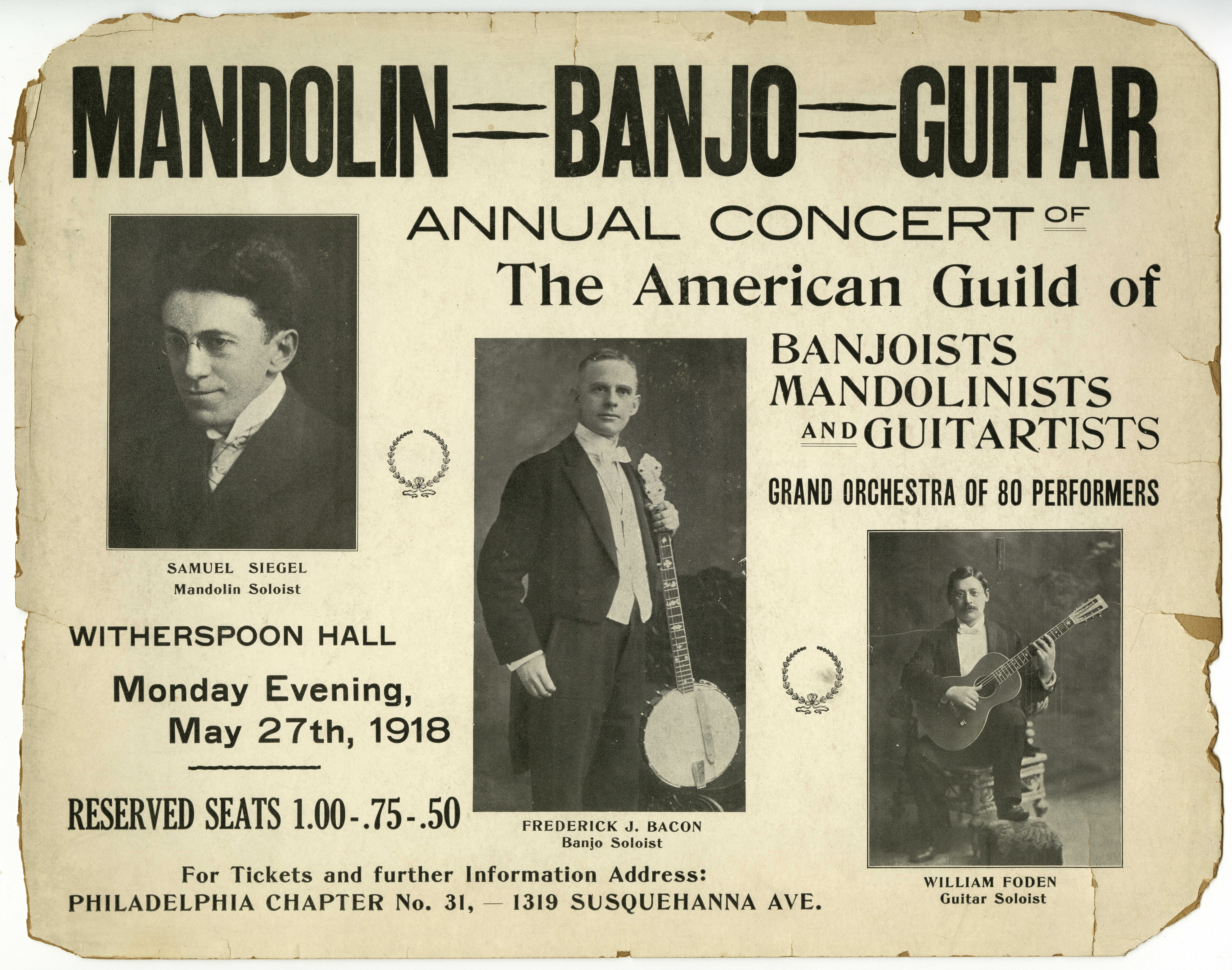 Includes portraits of Samuel Siegel, Frederick J. Bacon, and William Foden.Title: Annual concert of American Guild of banjoists, mandolinists and guitarists, to be held at Witherspoon Hall, Philadelphia, May 27, 1918